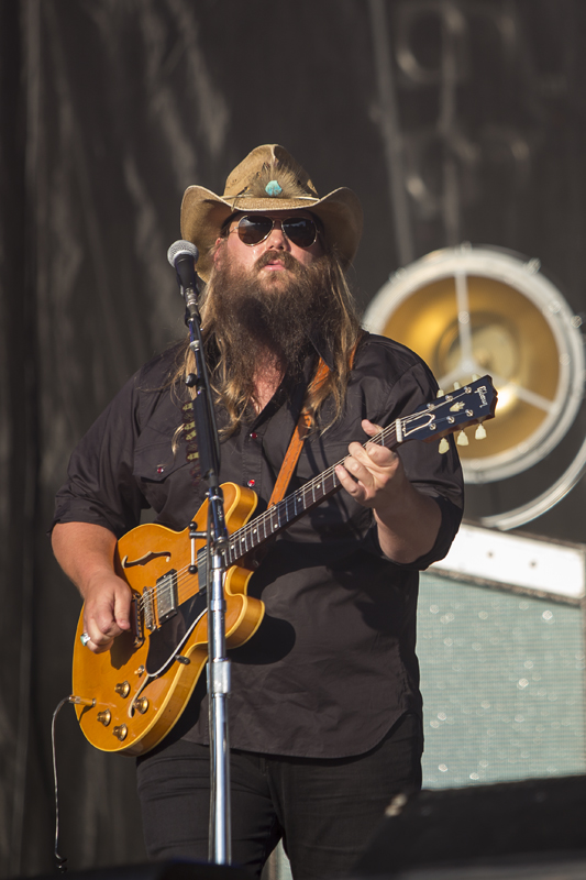 Chris Stapelton ACL 2016